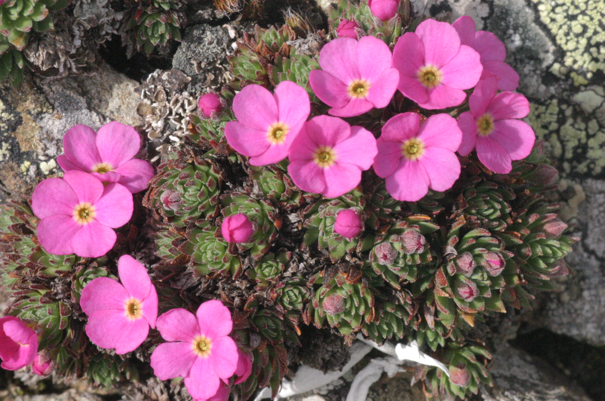 Androsace wulfeniana